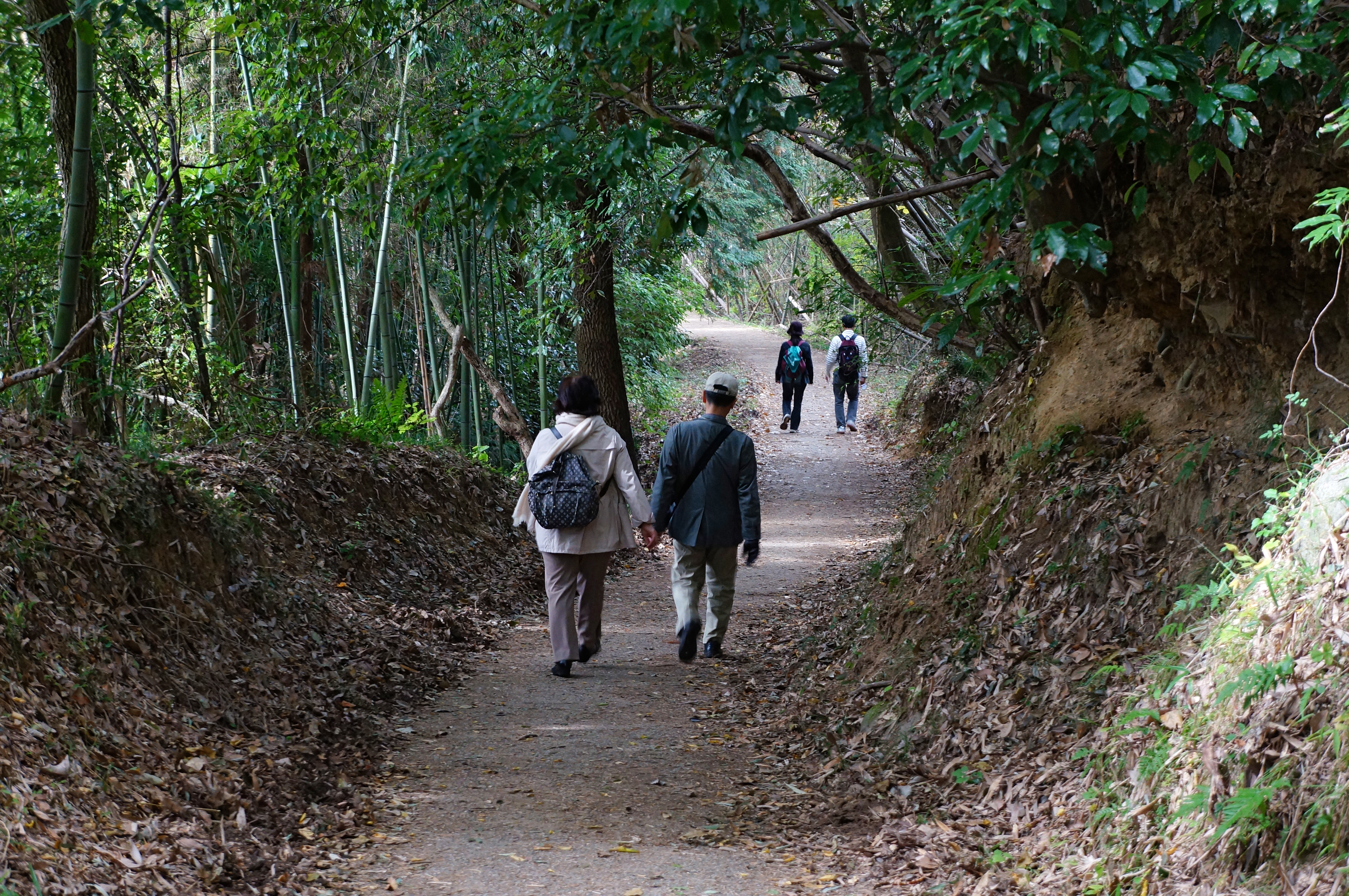 Tono, Kizugawa, Kyoto prefecture, Japan